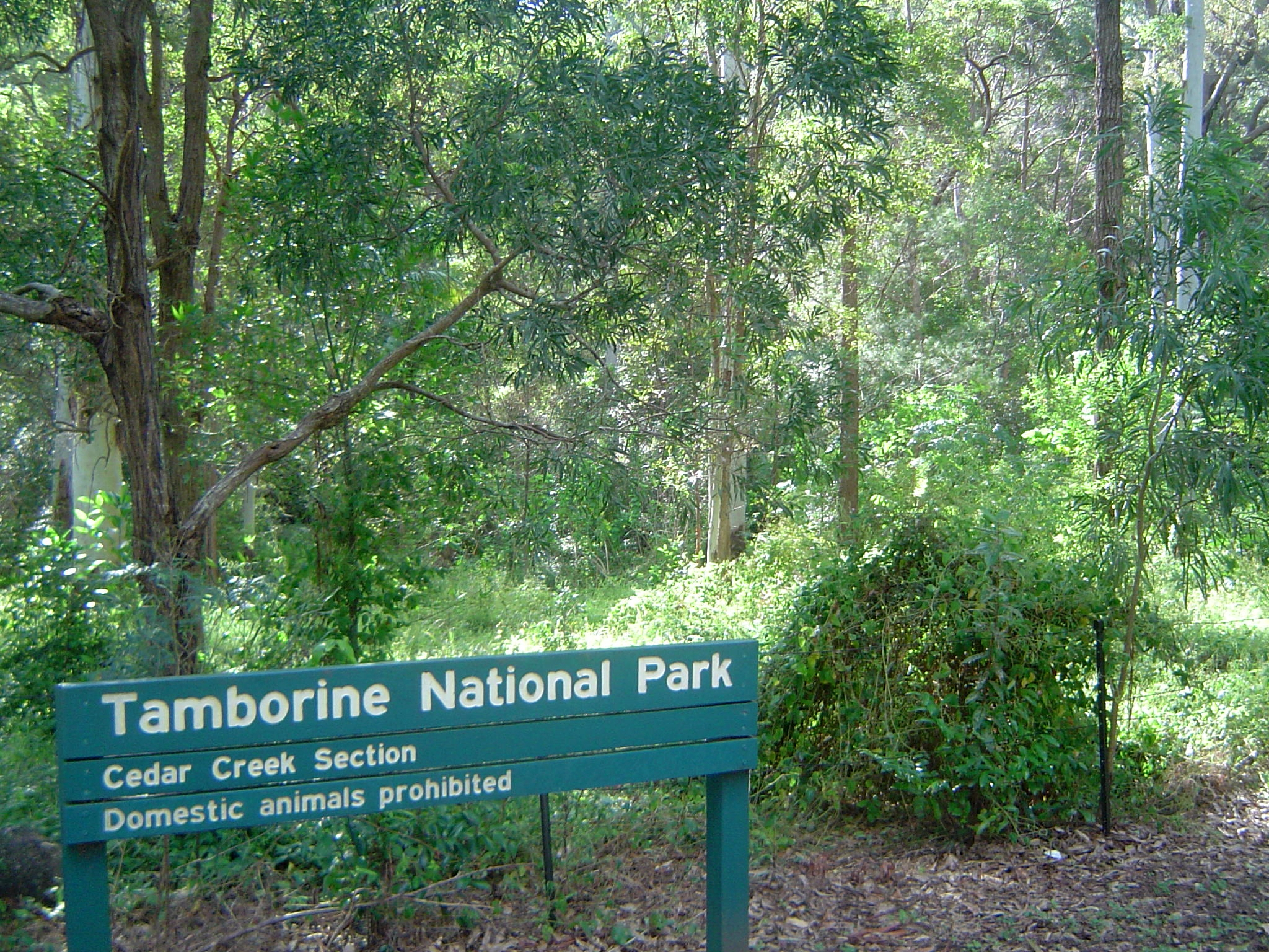 Photo of signage at Cedar Creek Falls in Tamborine National Park, South East Queensland, Australia.